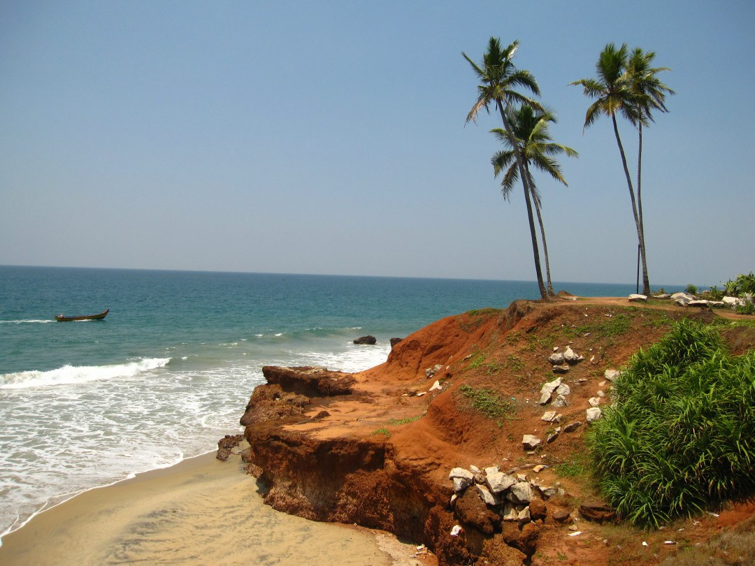 Arabian Sea view from 'Neppara' hills vettakada, Edava